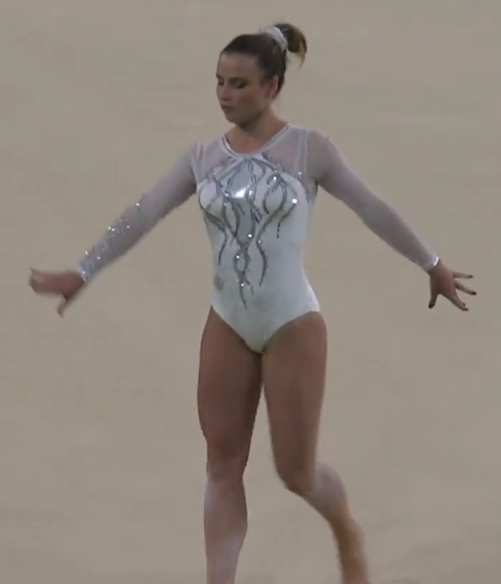 Ana Đerek at the 2016 Olympics in Rio. [Screenshot at approximately 0:12]